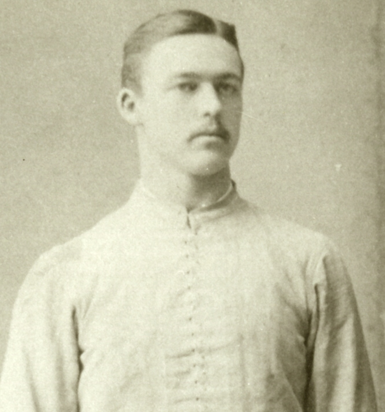 Photograph of Elmer Beach